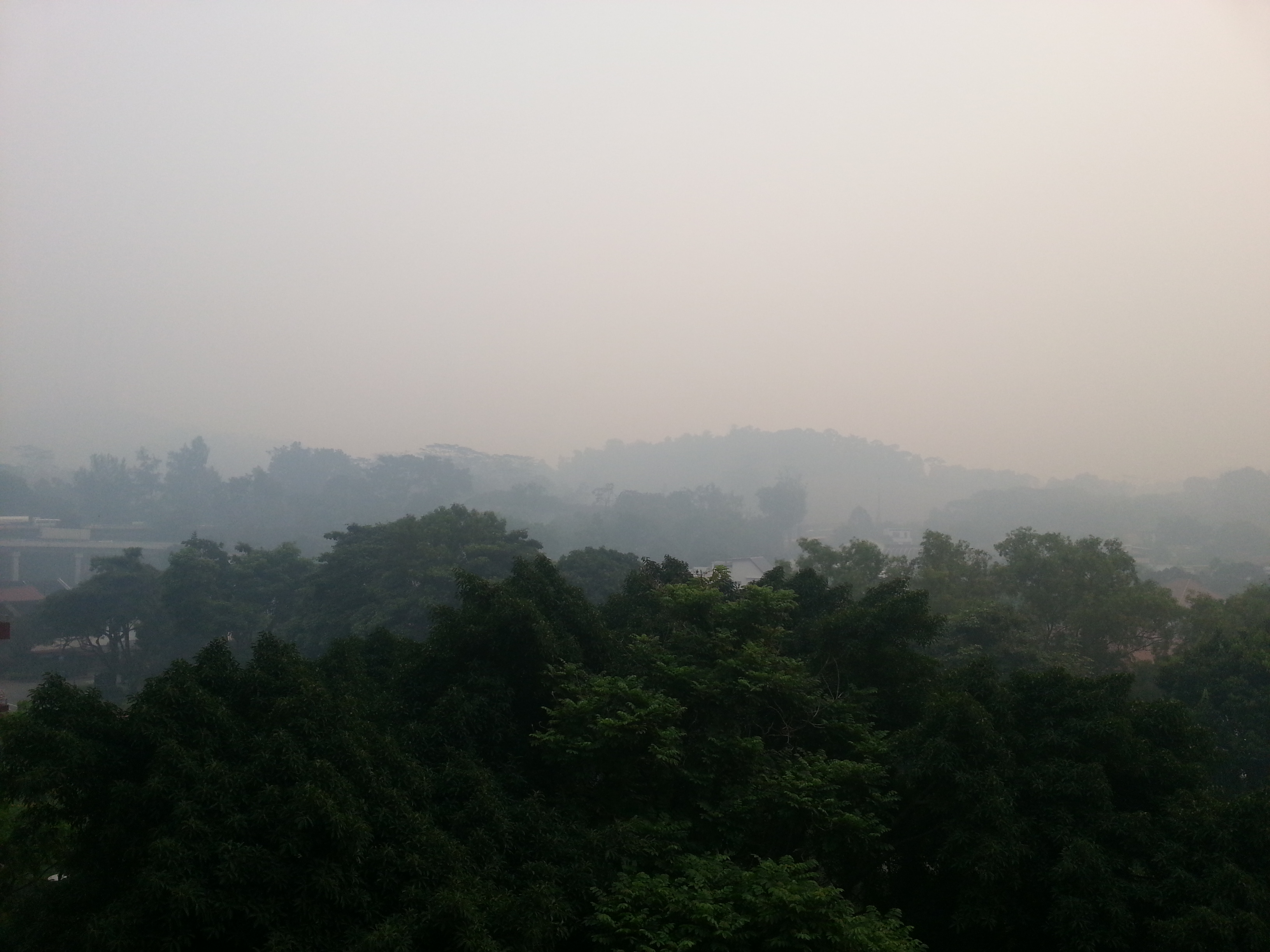 This picture, taken near Rifle Range Road, shows the effect of the 2013 Southeast Asian haze on Singapore. Normally, the hills in the background can be clearly seen.